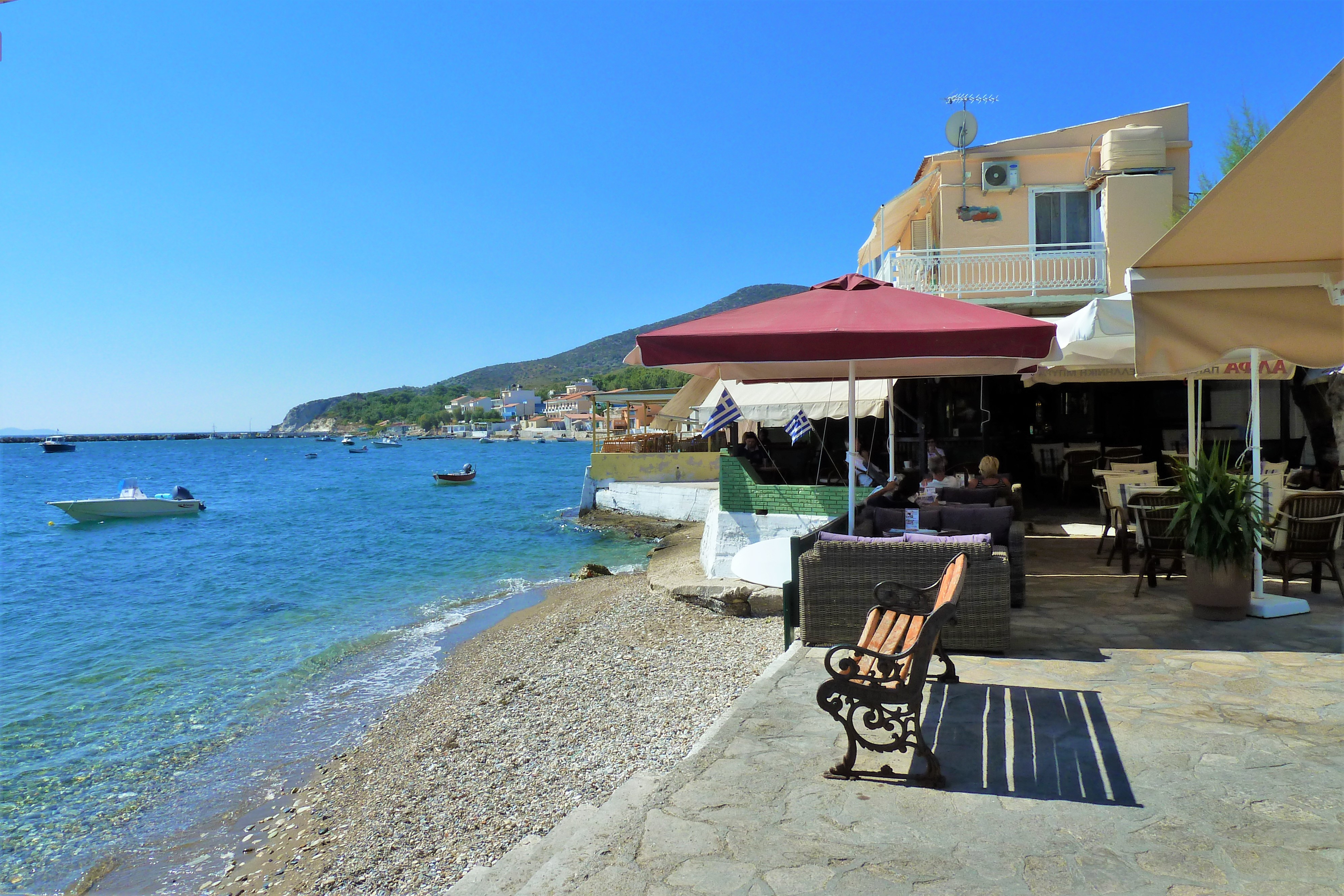 Ireo resort on the Greek island of Samos